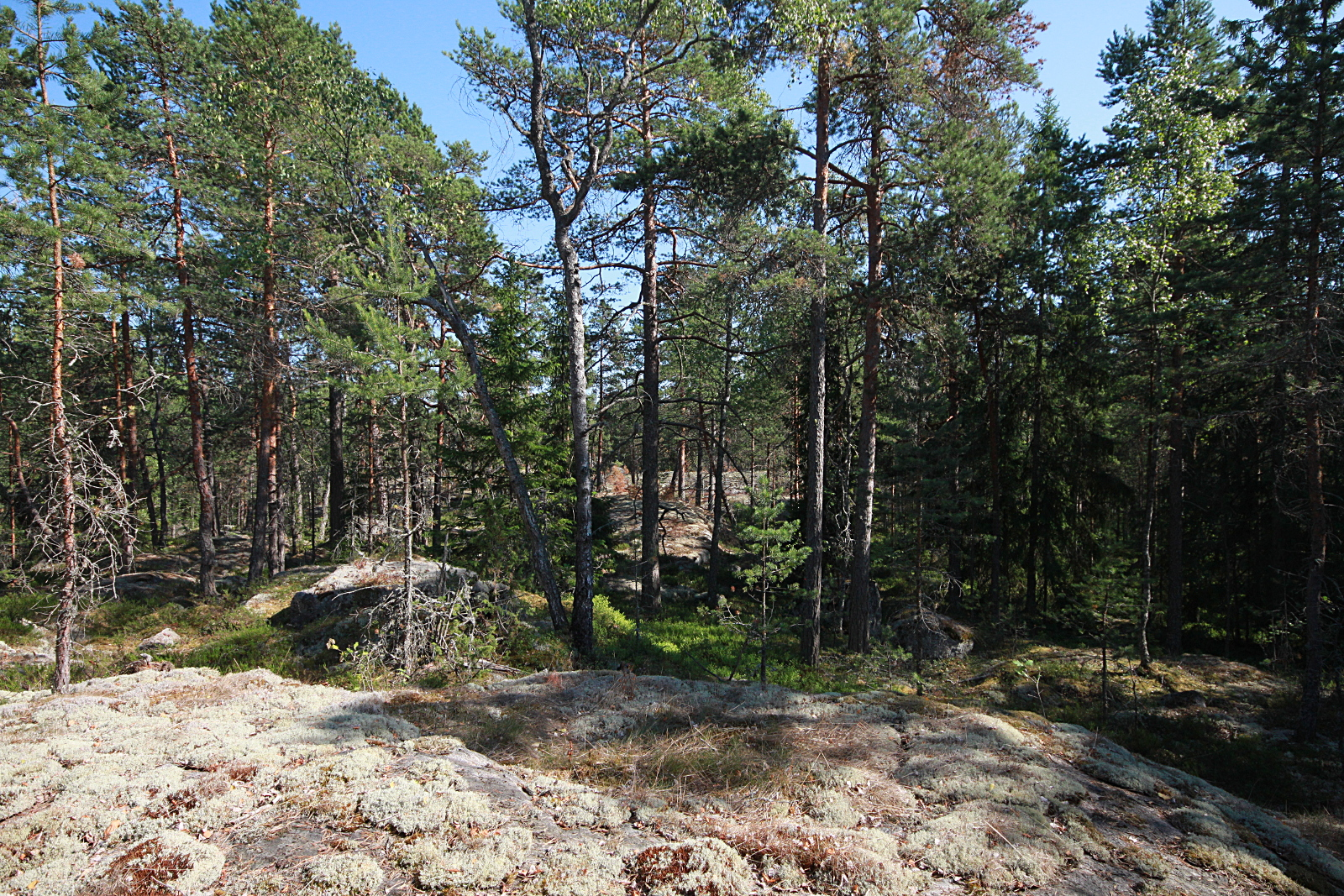 View of the site of bronze age workinging on Vainudden in Sipoo, Finland